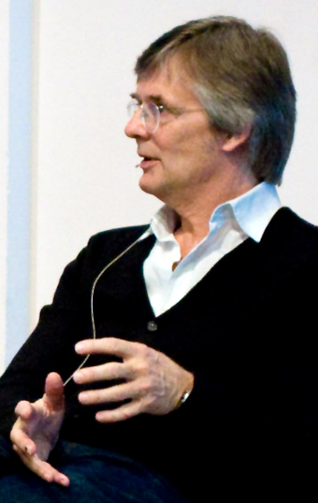 A picture of Bille August, taken during the film festival "Nordiska Filmdagar" in Helsingborg, Sweden